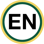 Station number's prefix of Enoshima Electric Railway (Enoden) Line